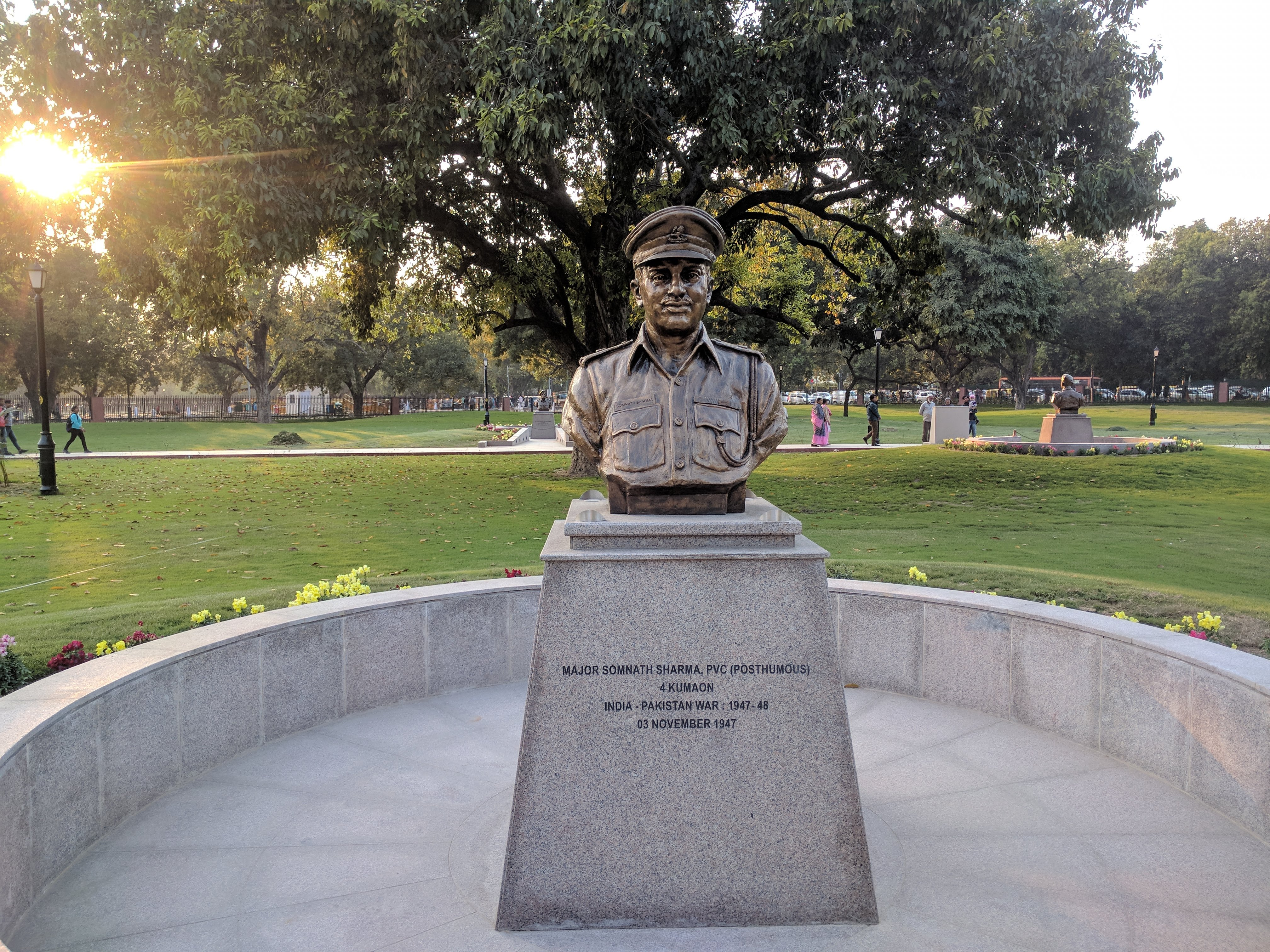 National War Memorial India, Param Vir Chakra section, Major Somnath Sharma